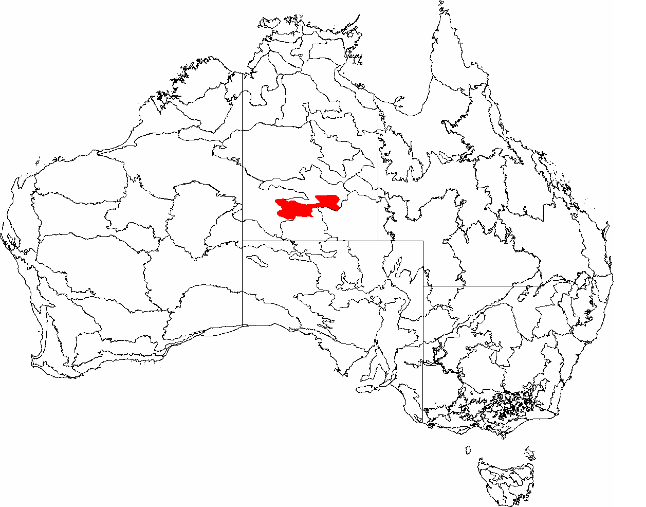 This is a map of the Interim Biogeographic Regionalisation of Australia (IBRA), with state boundaries overlaid. The MacDonnell Ranges region is shown in red.